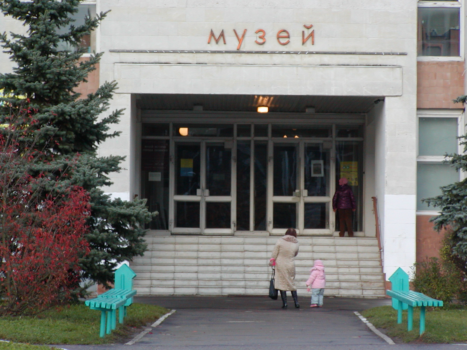 The main entrance of Obninsk's historical museum